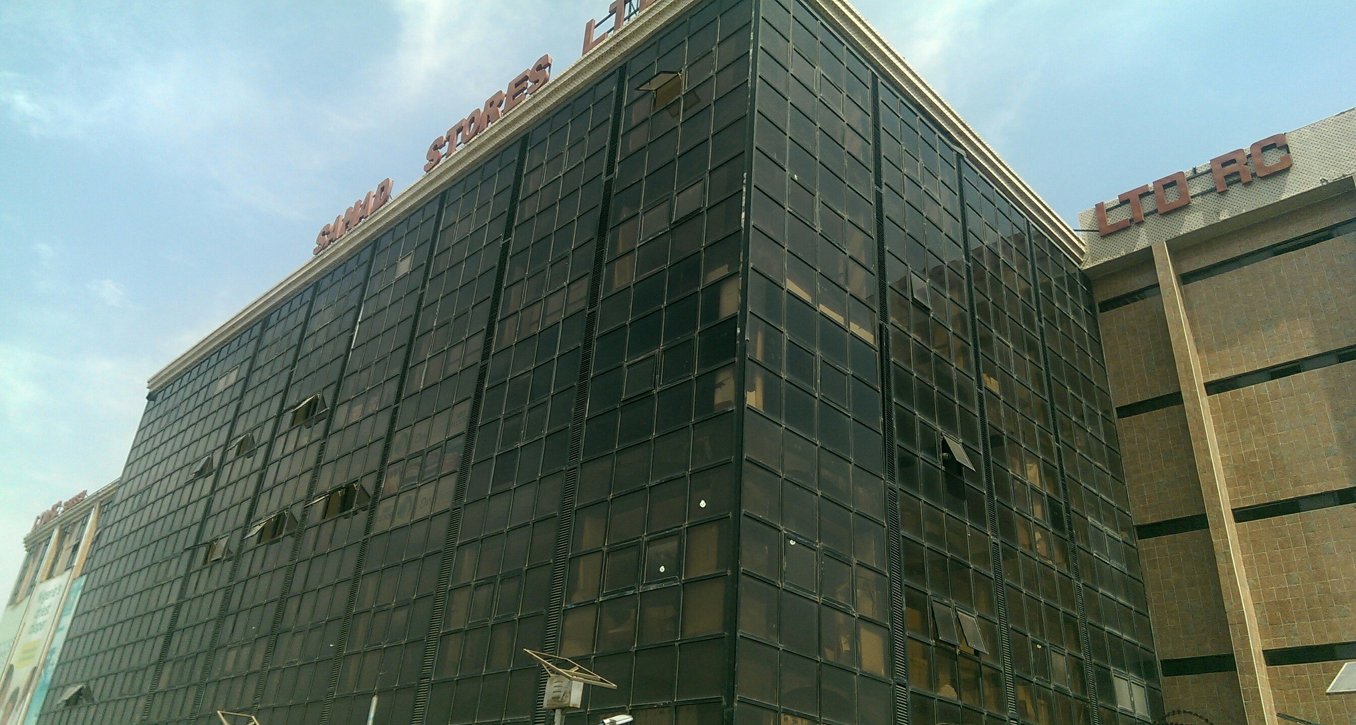 Sahad Stores is a large department store popular with shoppers.